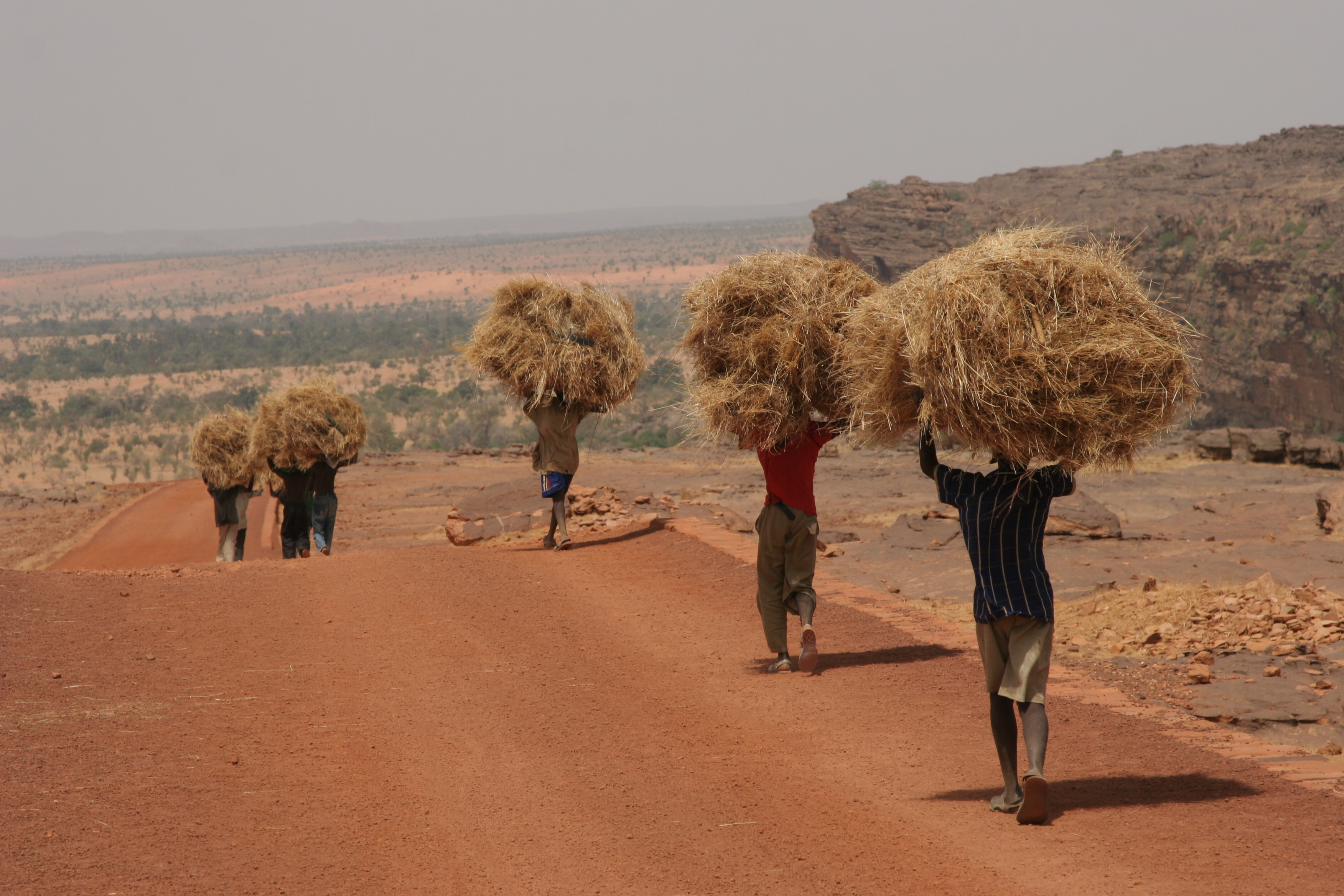 Mali, West Africa - Young Dogon men carrying straw which is used as animal feed.